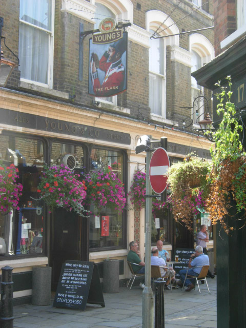 The Flask, Hampstead The Flask in Flask Walk is one of London's best known pubs, a traditional pub in the heart of Hampstead's most attractive area.